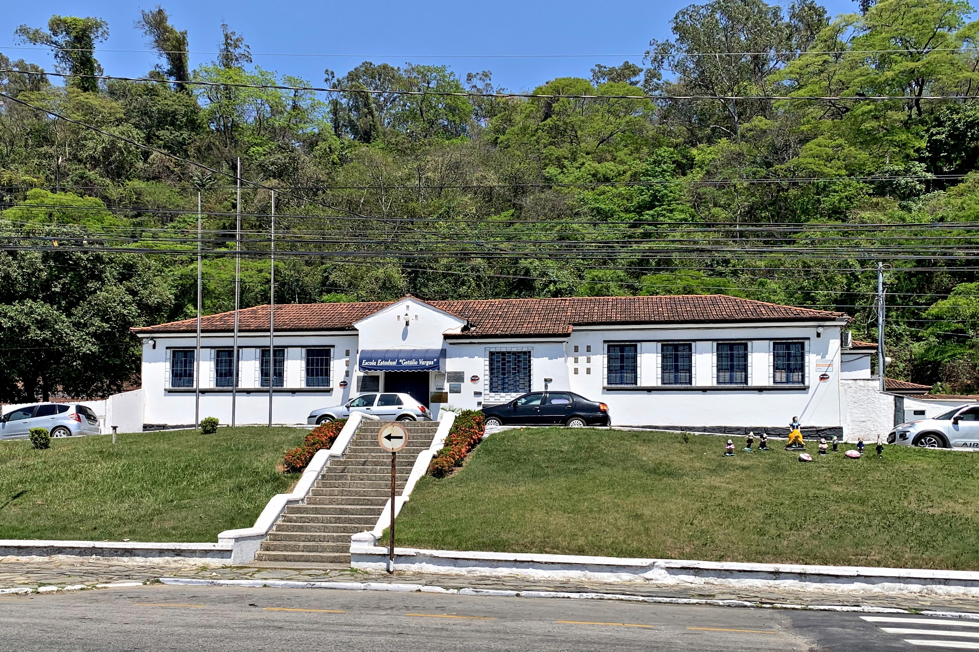 Facade of the Getúlio Vargas estadual school, in Timóteo, Minas Gerais, Brazil.